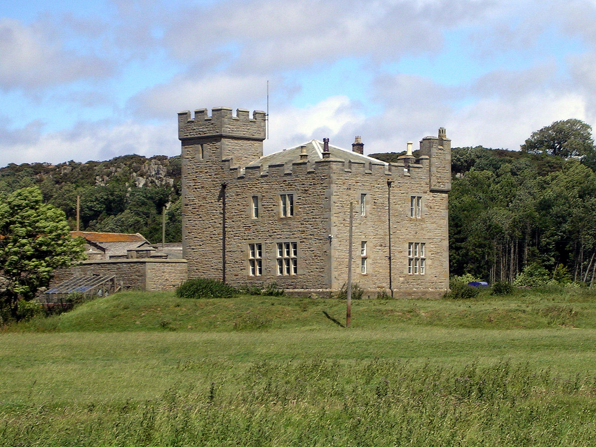 Westhall